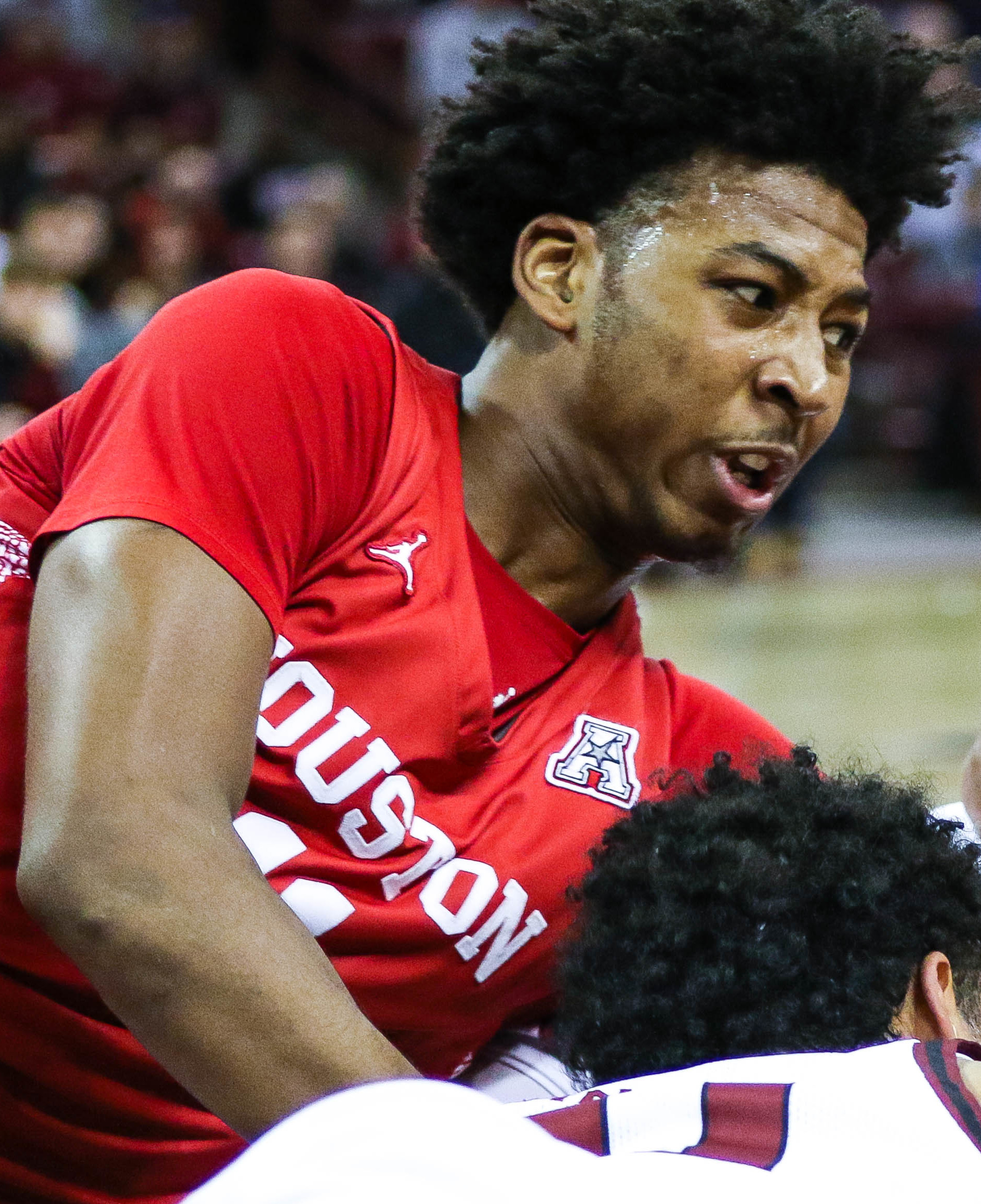 Alanzo Frink and Nate Hinton in December 2019